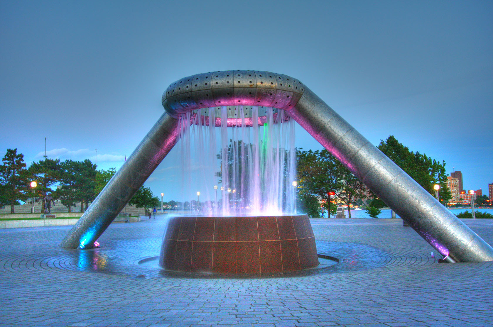 Horace E. Dodge and Son Memorial Fountain in Detroit's Hart Plaza - view from the front in the evening